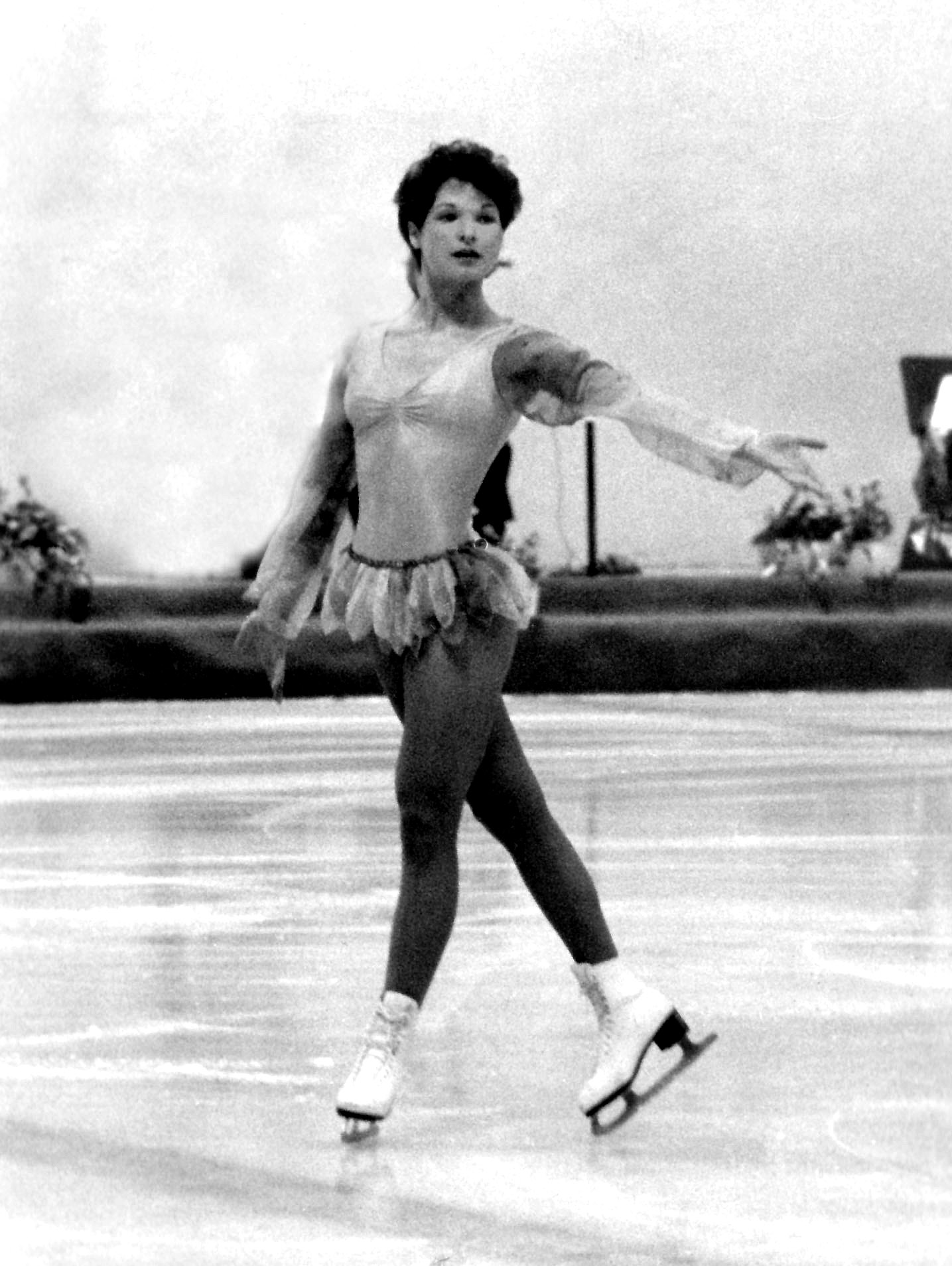 Anett Pötzsch at the Blue Swords on November 18, 1979 in the Werner Seelenbinder Hall in Berlin. Photo was made by Hella Höppner. Permission was granted to publish this here under the selected licence.